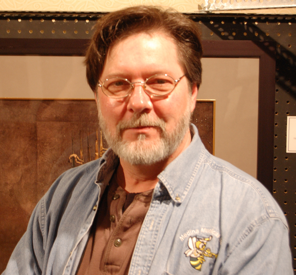 John Jude Palencar at World Horror Convention 2008 in Salt Lake City, Utah.